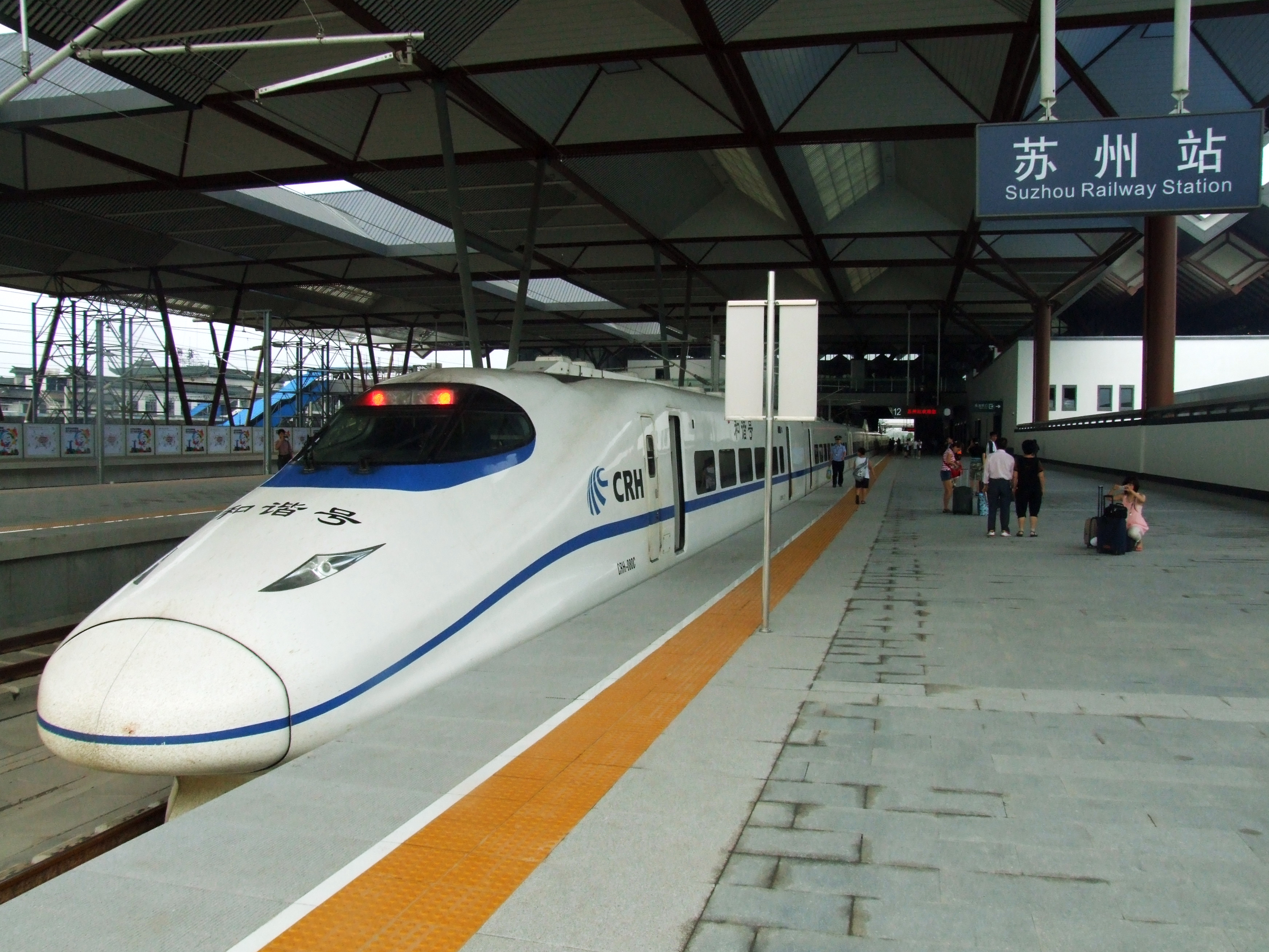 CRH2-080C in Suzhou Railway Station